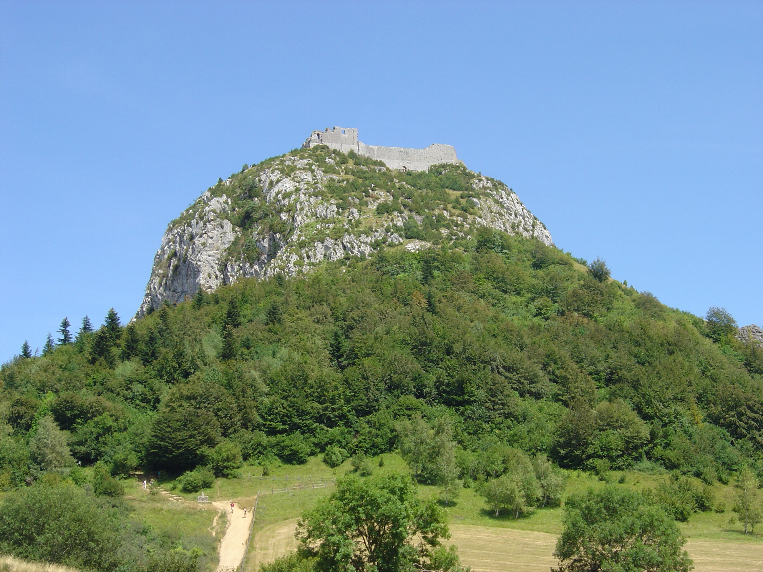 A view of Chateau de Montsegur at the top of the mountain